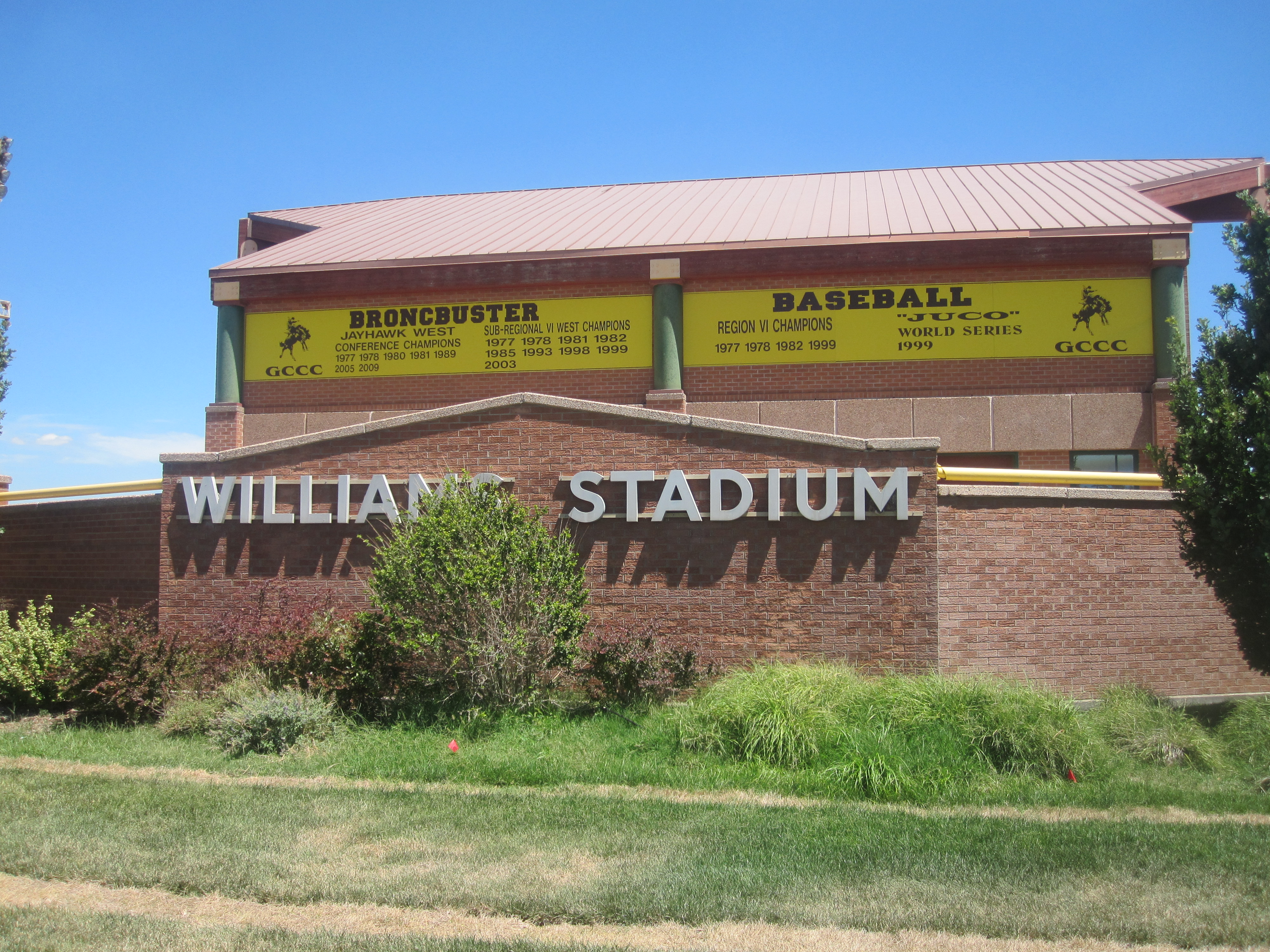 I took photo with Canon camera in Garden City, KS.